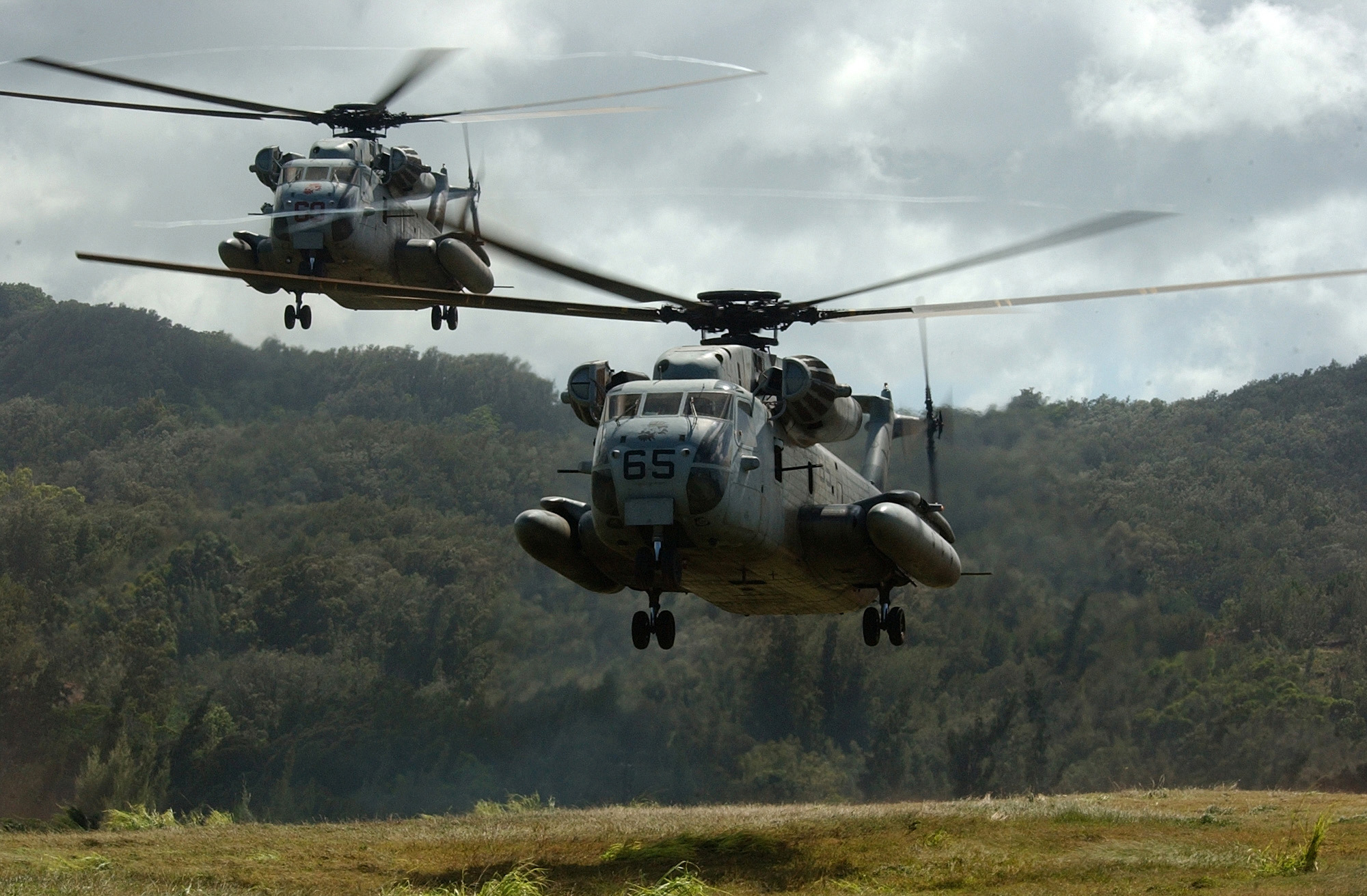 CH-53D helicopters of U.S. Marine Heavy Helicopter Squadron 362 short final to a landing zone.